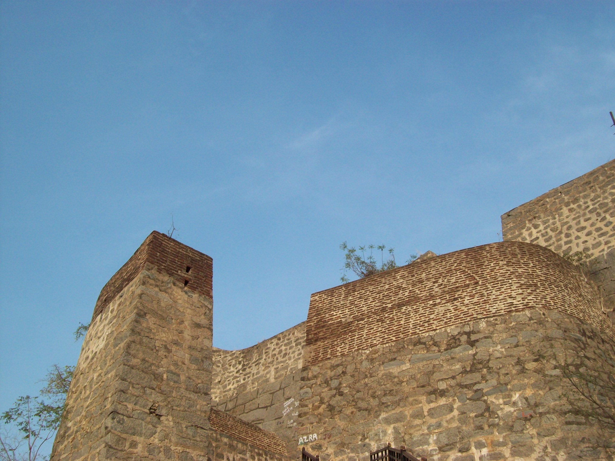 Khammam Fort . It is taken to show the entrance from the bottom . This view will be visible as you climb the steps